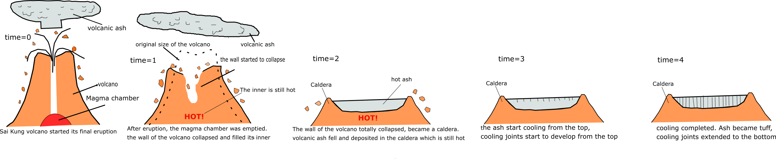 Formation of cooling joints